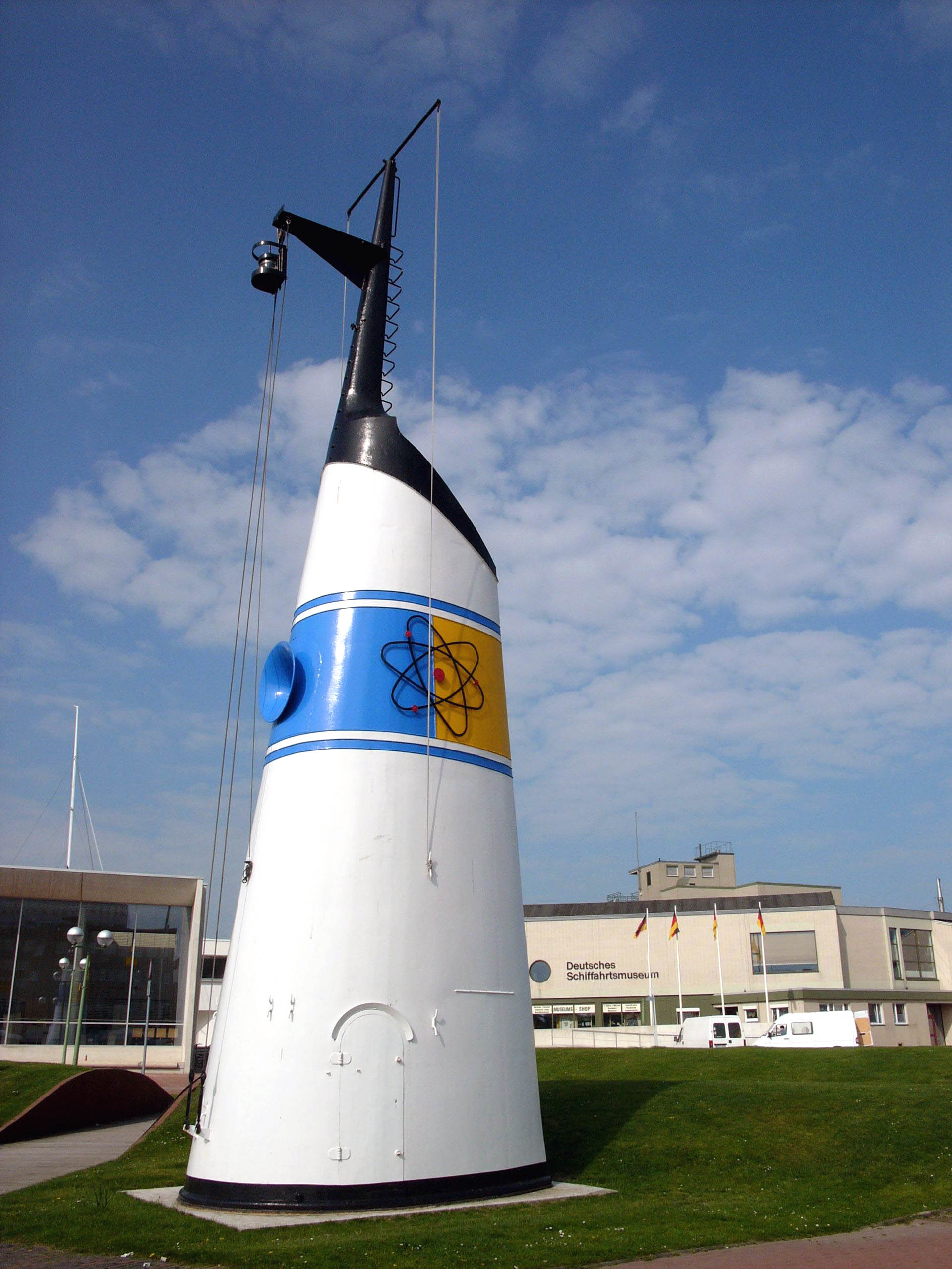 German Shipping Museum Native nameDeutsches SchifffahrtsmuseumParent institutionLeibniz AssociationLocationHans-Scharoun-Platz 1 27568 Bremerhaven GermanyCoordinates53° 32′ 24.36″ N, 8° 34′ 37.2″ E Established5 September 1975Web pageDeutsches SchifffahrtsmuseumAuthority control : Q455354 VIAF: 128715457 ISNI: 0000 0001 2256 5668 LCCN: n50065866 NLA: 35745010 GND: 2008892-9 WorldCat Funnel of Otto Hahn (Nuclear-powered freighter), German Maritime Museum, Bremerhaven